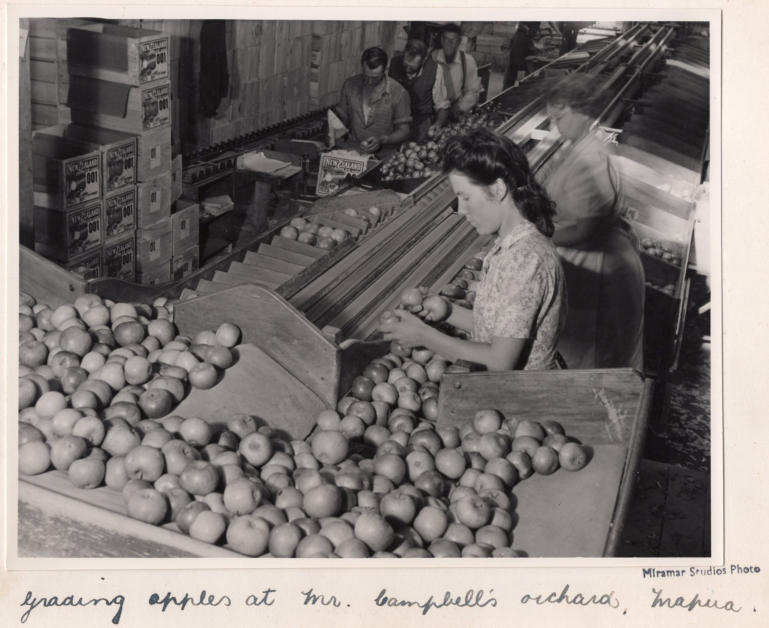 Archives New Zealand Reference: AAFZ 6329 W3302 Box 27